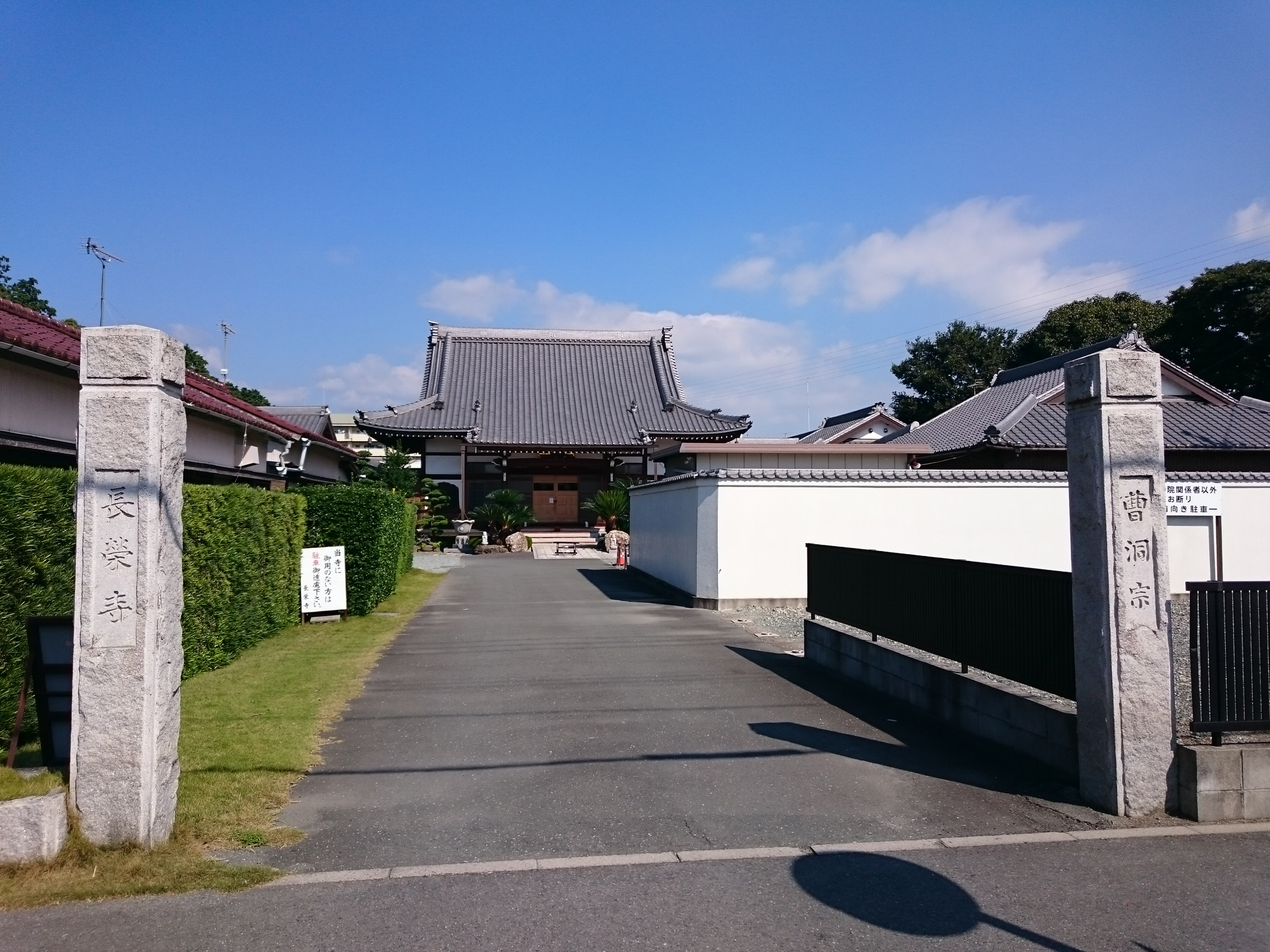 Choshoji (長栄寺), located at 2-211 Suwanishimachi, Toyokawa, Aichi, Japan